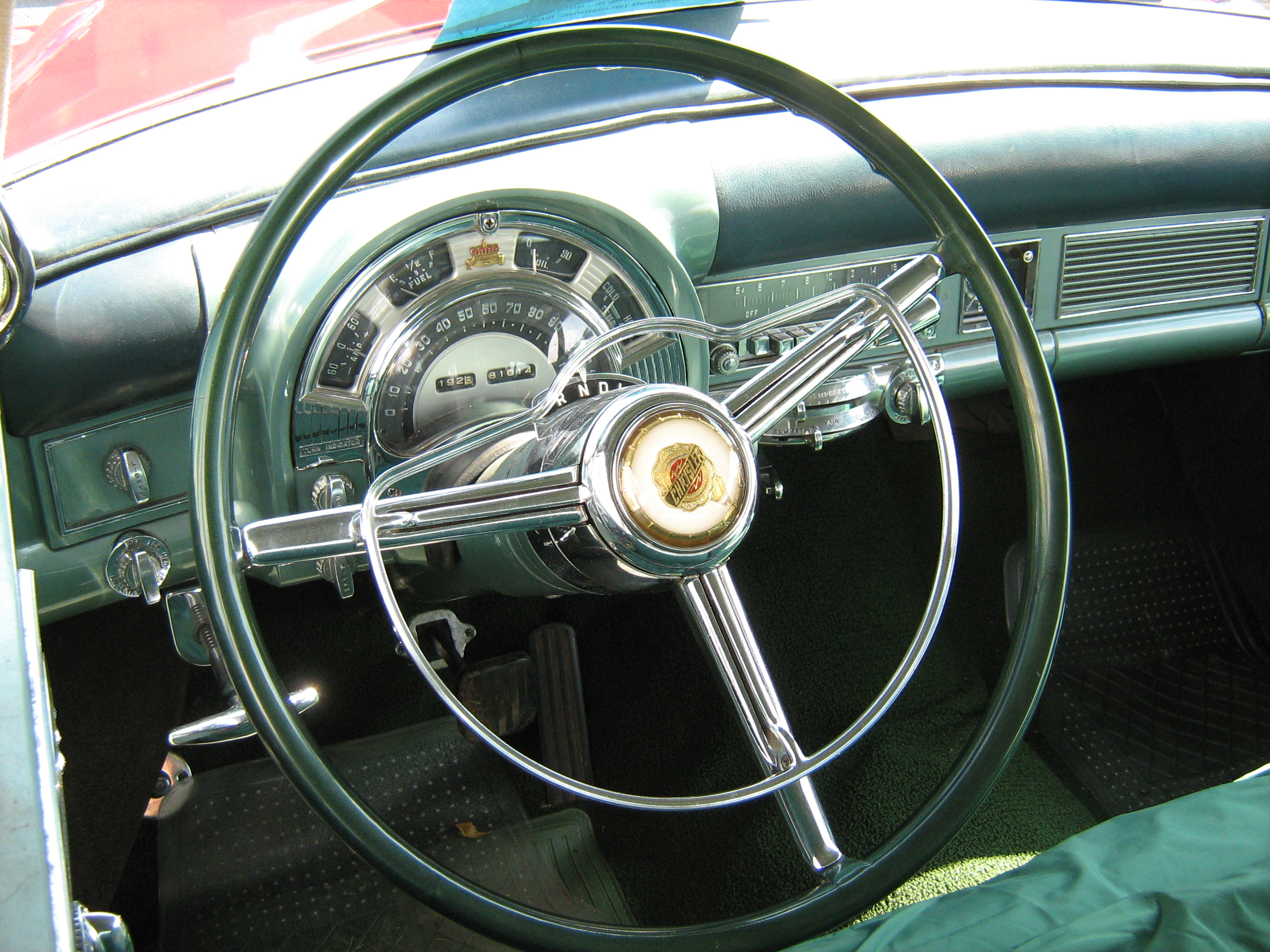 1953 Chrysler Imperial dashboard. Note the PowerFlite automatic transmission.